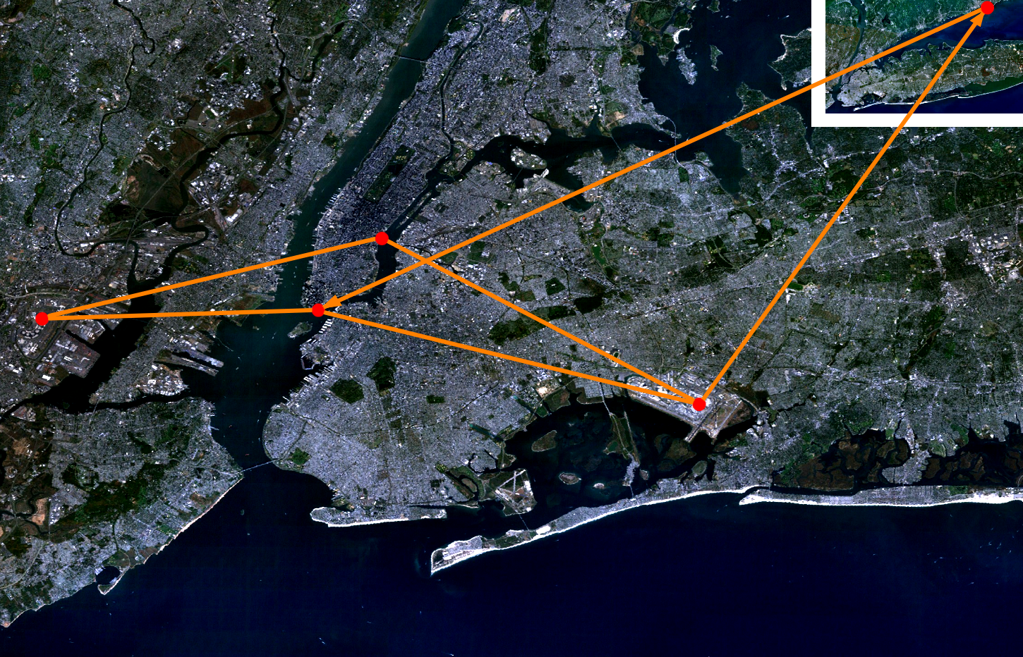 Scheduled flights of US Helicopter as of 2007/12, overlaid on Landsat7 image of region